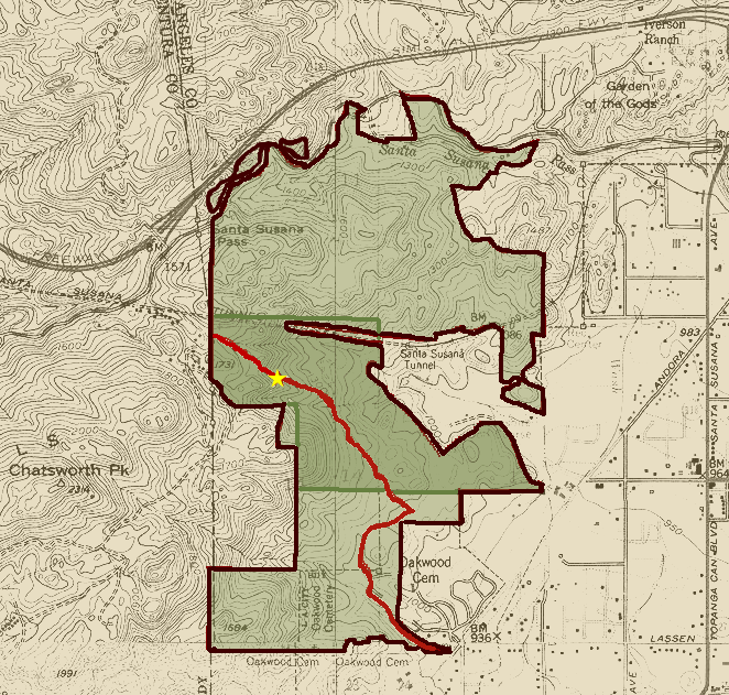 Map of the Old Santa Susana Stage Road, a 174-acre National Register of Historic Places property within Santa Susana Pass State Historic Park near Chatsworth, California. The property is also Ventura County Historical Landmark #104 and Los Angeles City Historic-Cultural Monument #92 (under the name Old Stagecoach Trail). The Stage Road is indicated in red and the star marks its historic plaque. Map based on park map at California Department of Parks and Recreation Santa Susana Pass State Historic Park Preliminary General Plan/Draft EIR